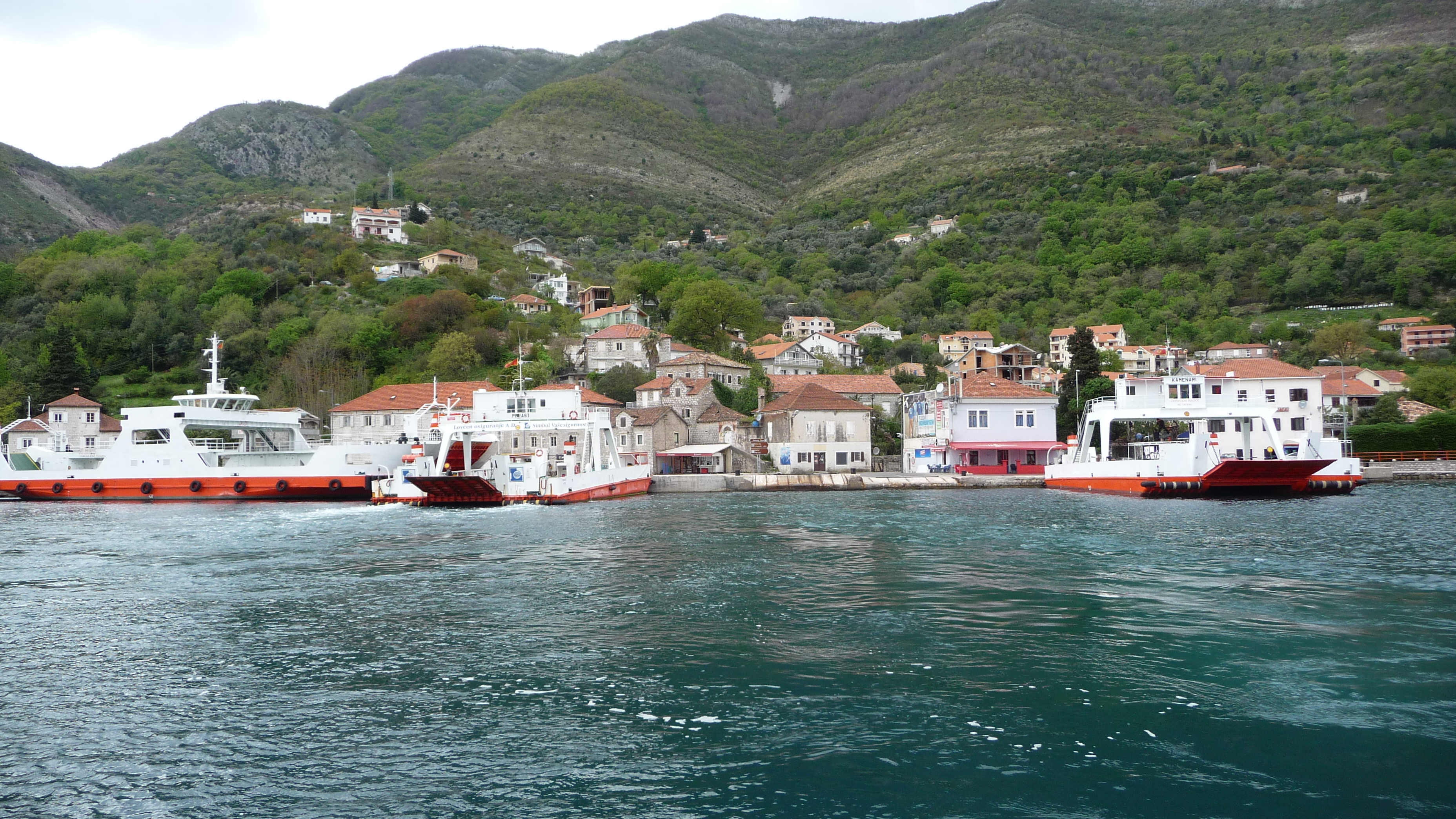 Traveling to Tivat, Montenegro